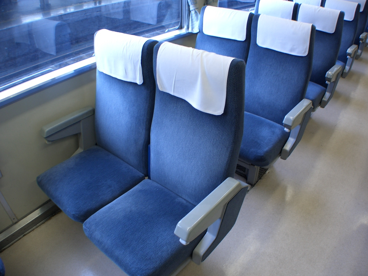 "Moonlight Kouchi" the coach type"14" economy seat